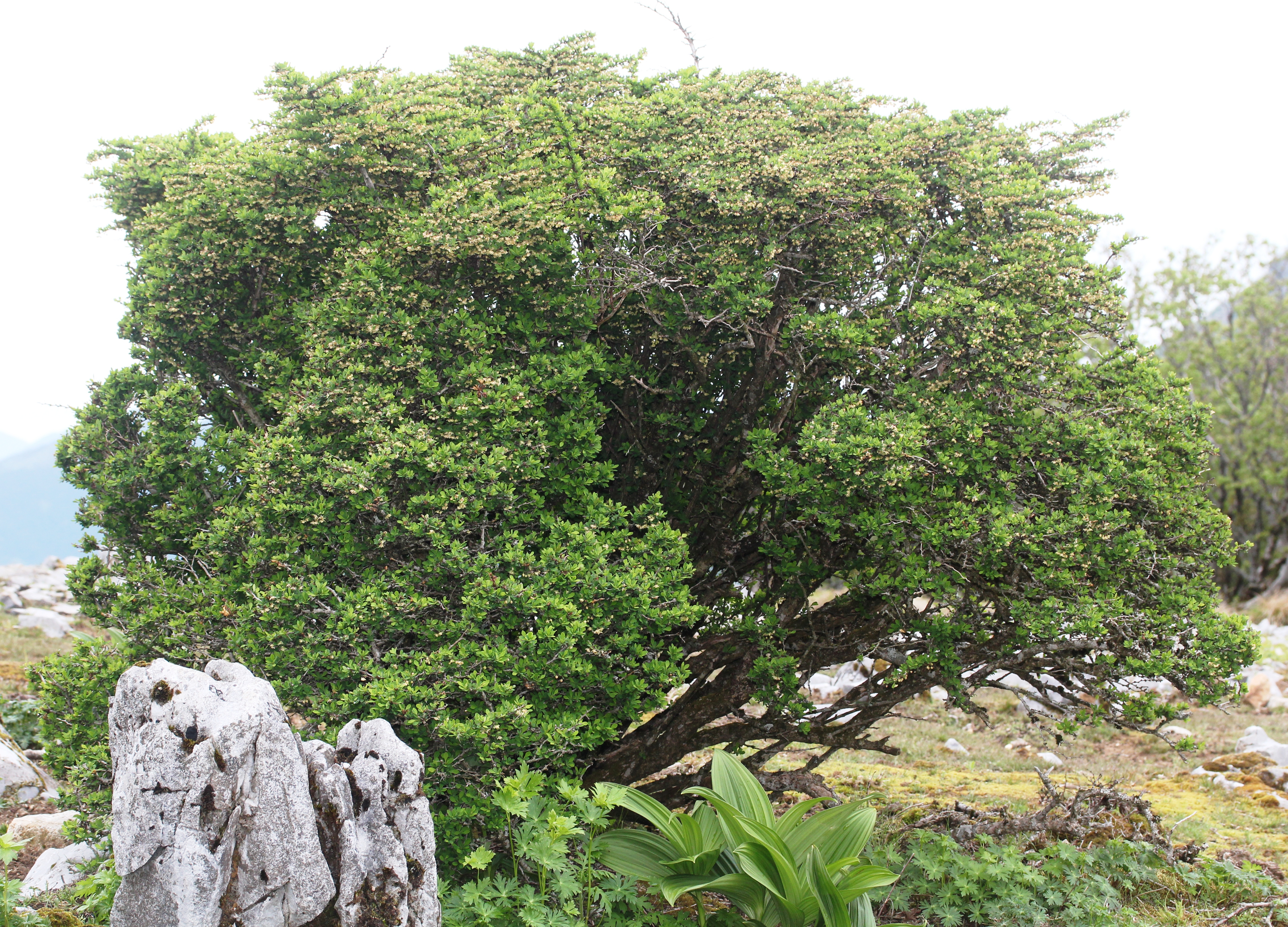 Berberis thunbergii in Mount Fujiwara, Inabe, Mie prefecture, Japan.